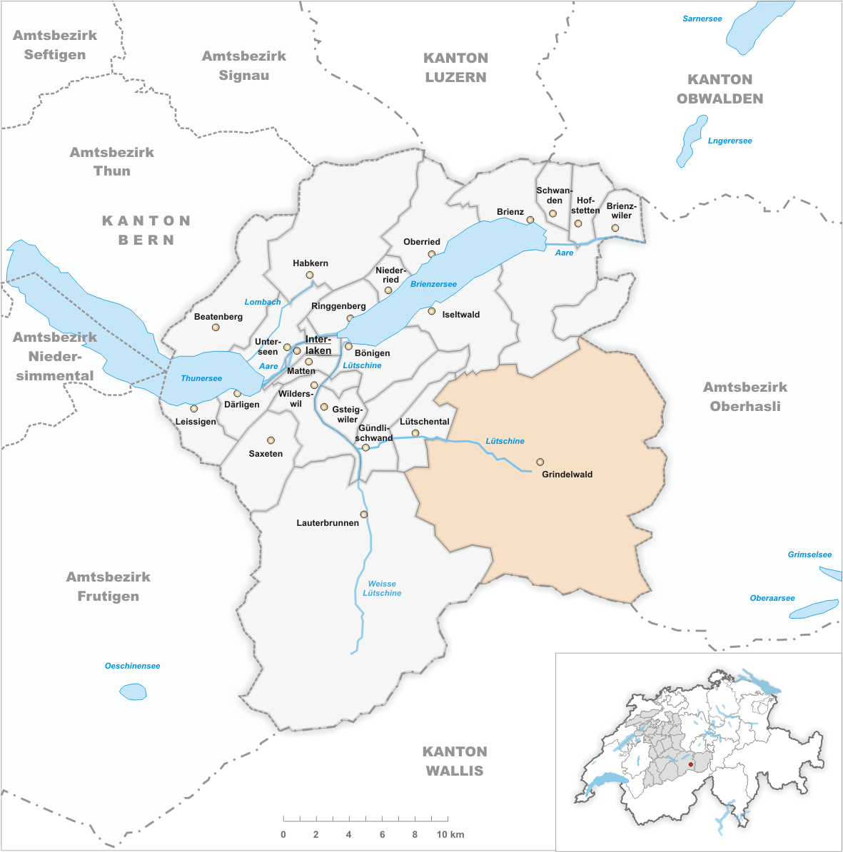 Municipality Grindelwald